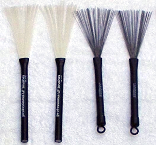 Left: LP nylon brushes. Right: Traditional steel brushes.